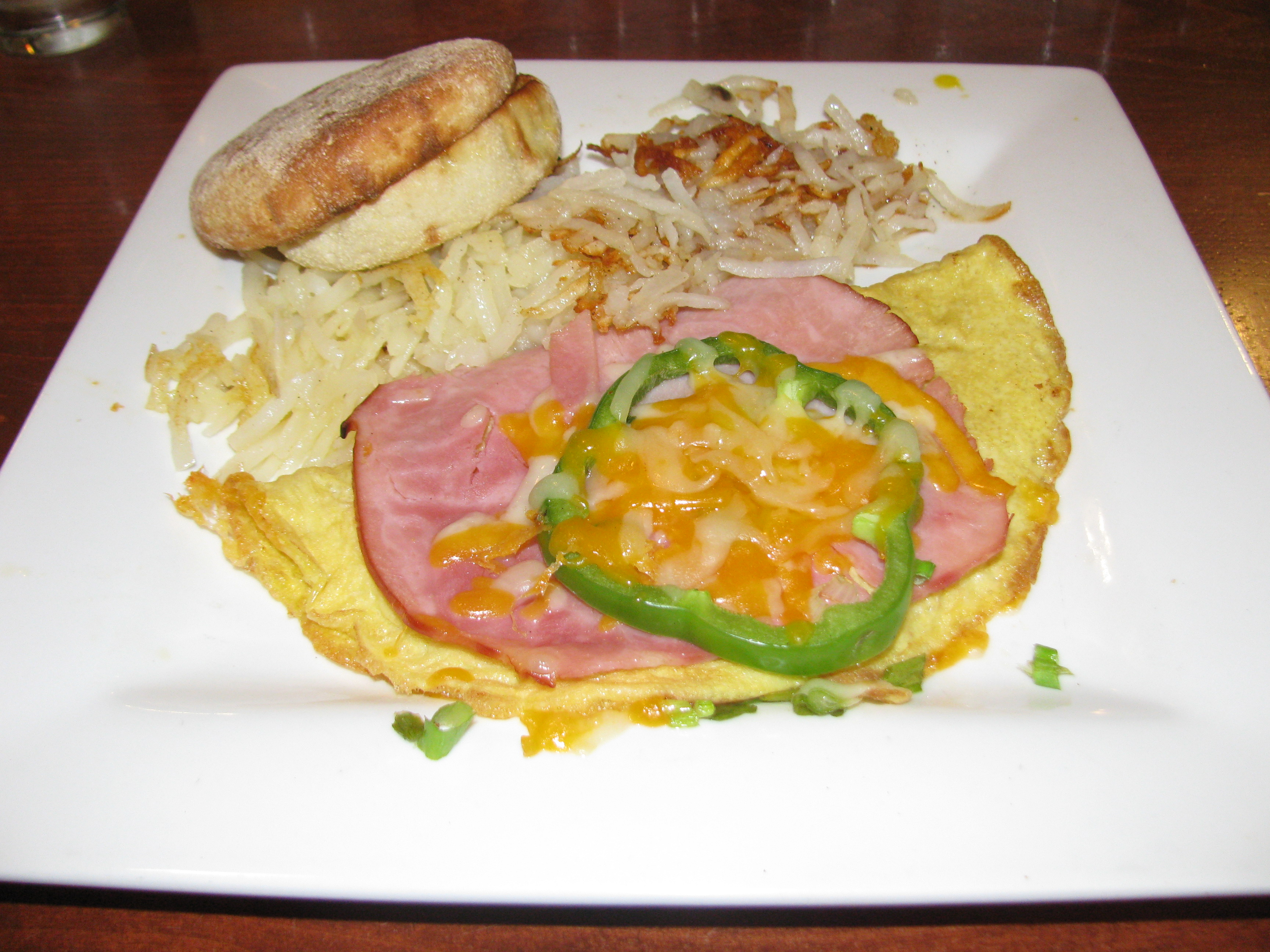 Denver Omelette served with hash browns and English muffin.